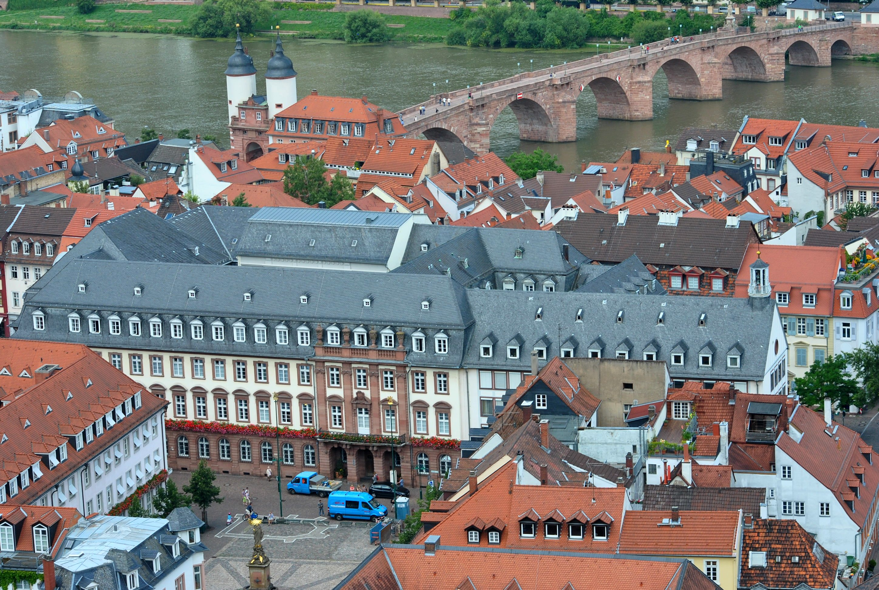 The surrounding view.